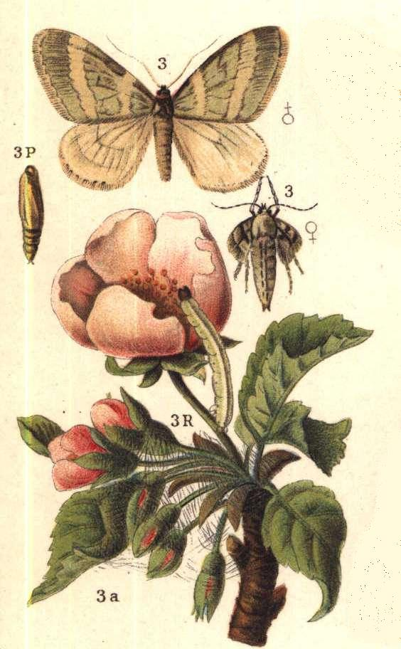 Winter Moth (Operophtera brumata)